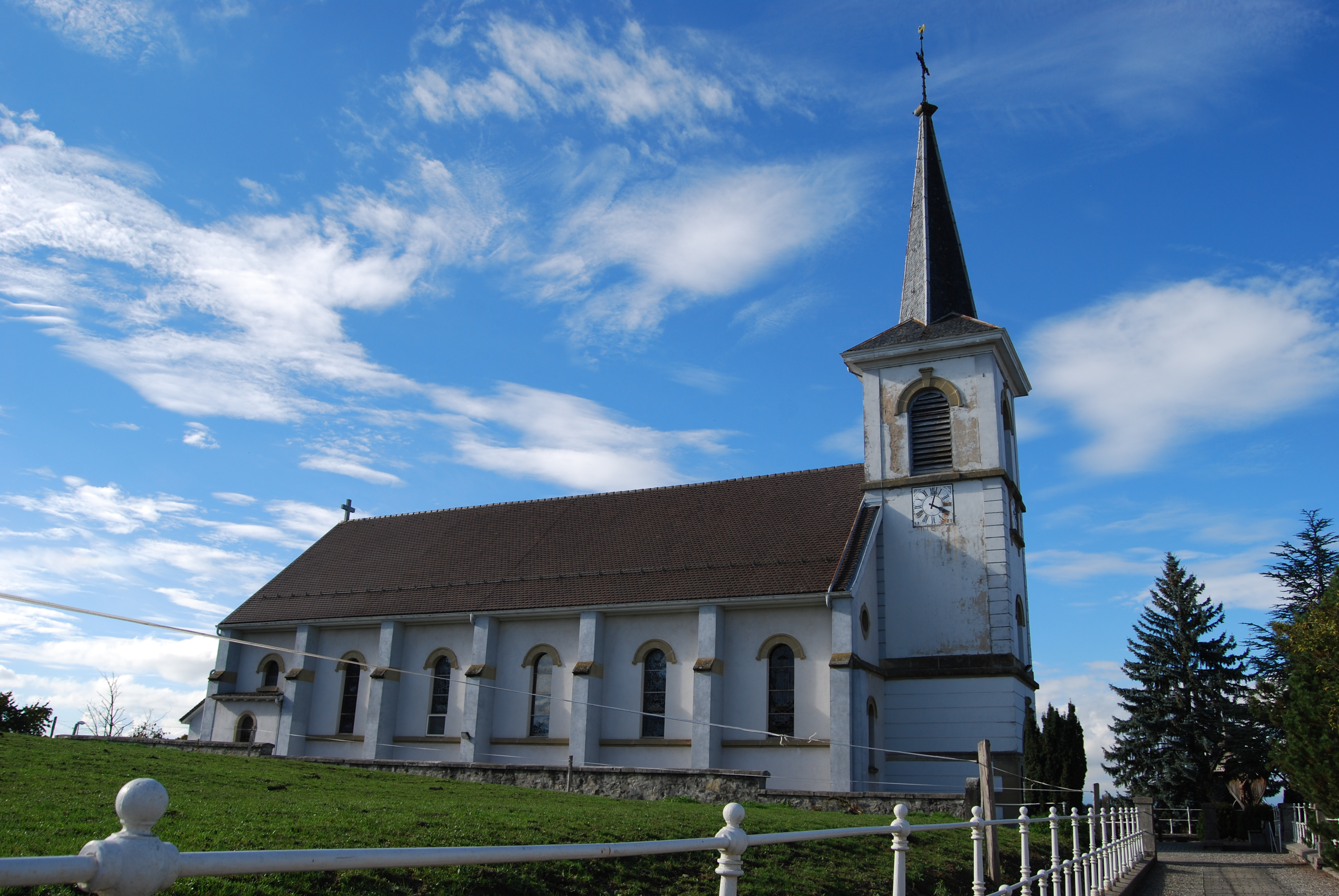 Catholic Church of Corserey, canton of Fribourg, Switzerland